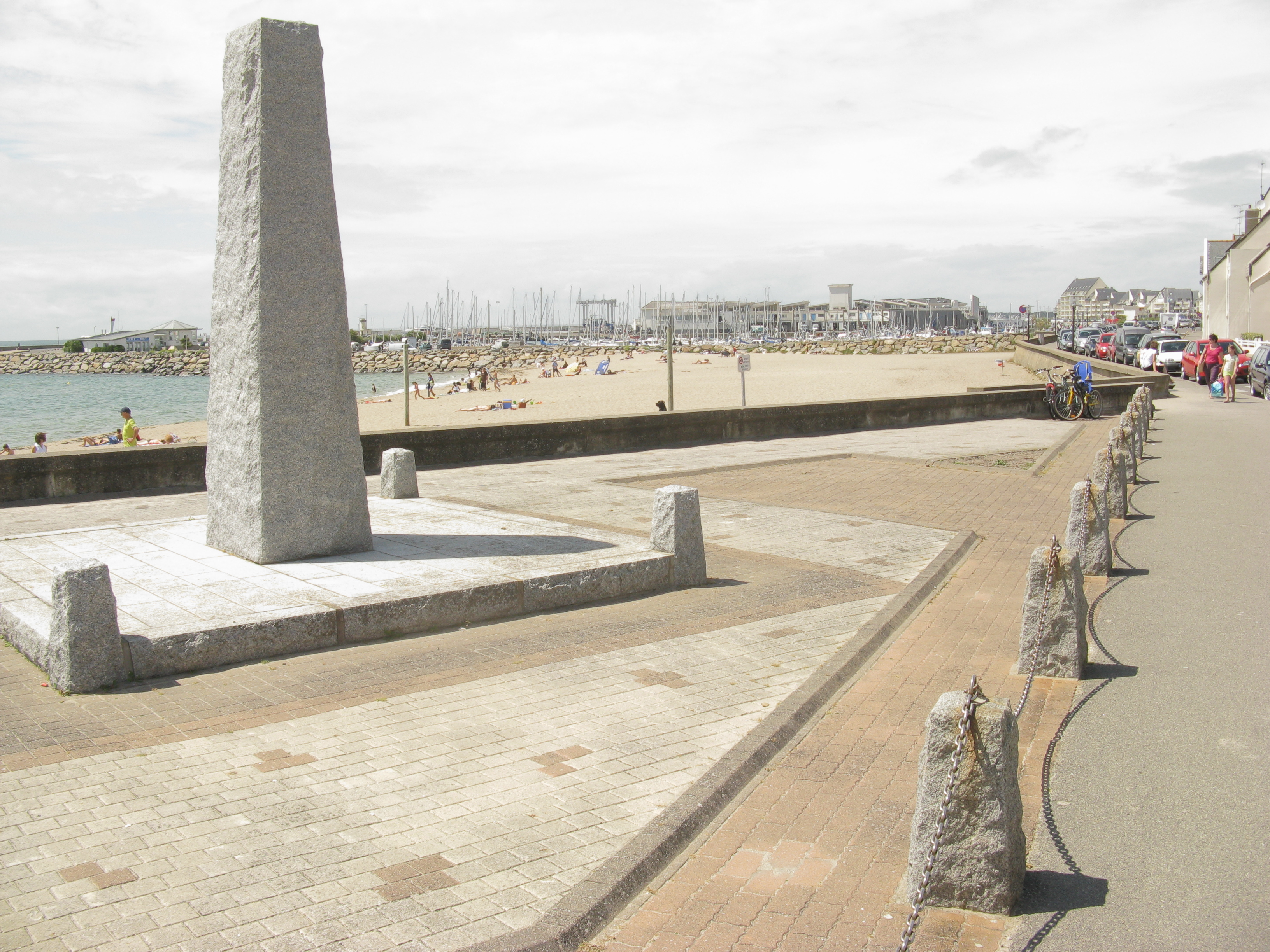 Monument, beach and port at La Turballe, Loire-Atlantique, France.